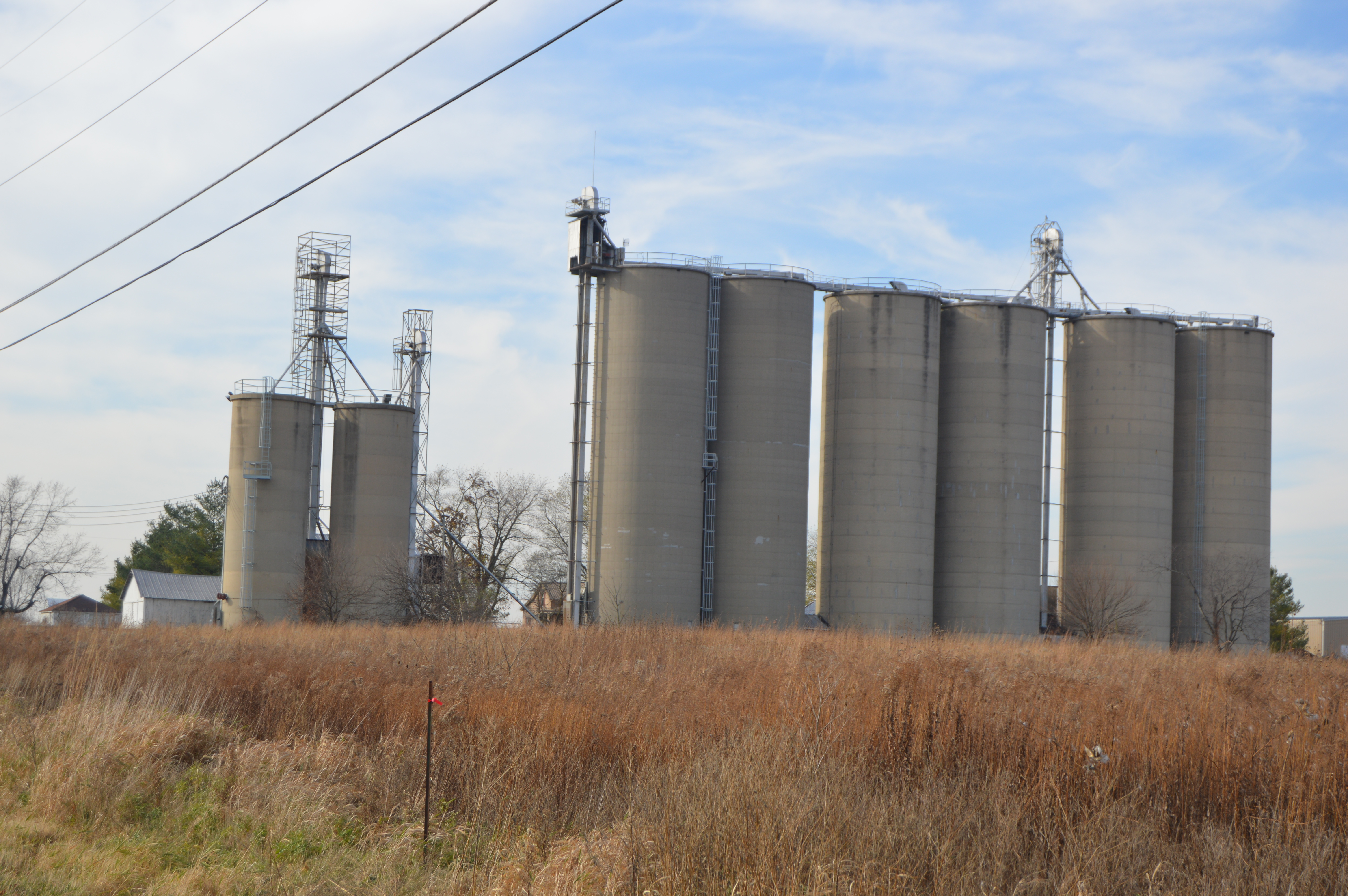 View from the east of the community grain elevator on the northern side of Fort Loramie-Swanders Road in Swanders, Ohio, United States.